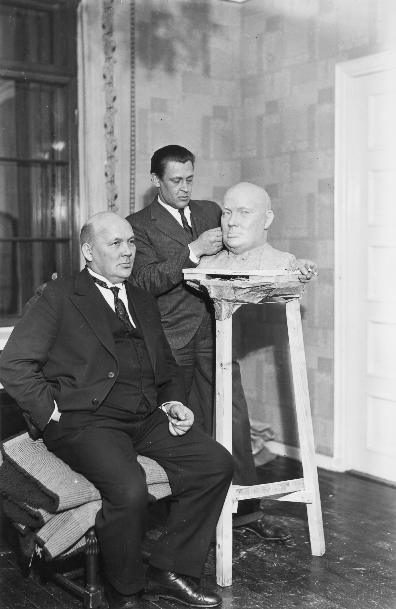 Photograph of the Finnish sculptor Mauno Oittinen (1896–1970) working on a bust of the Finnish writer F. E. Sillanpää.